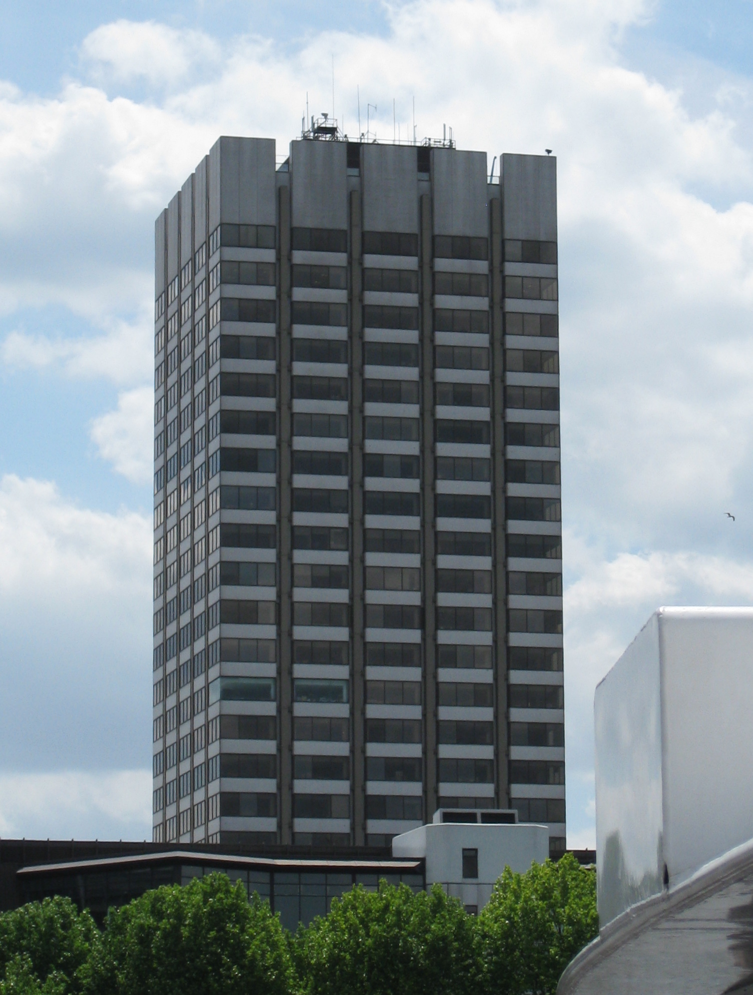 Kent House, The London Studios